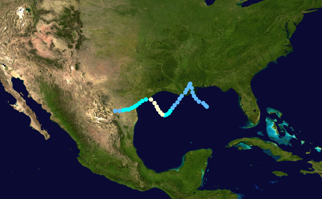 Hurricane Fern (1971) track. Uses the color scheme from the Saffir-Simpson Hurricane Scale.